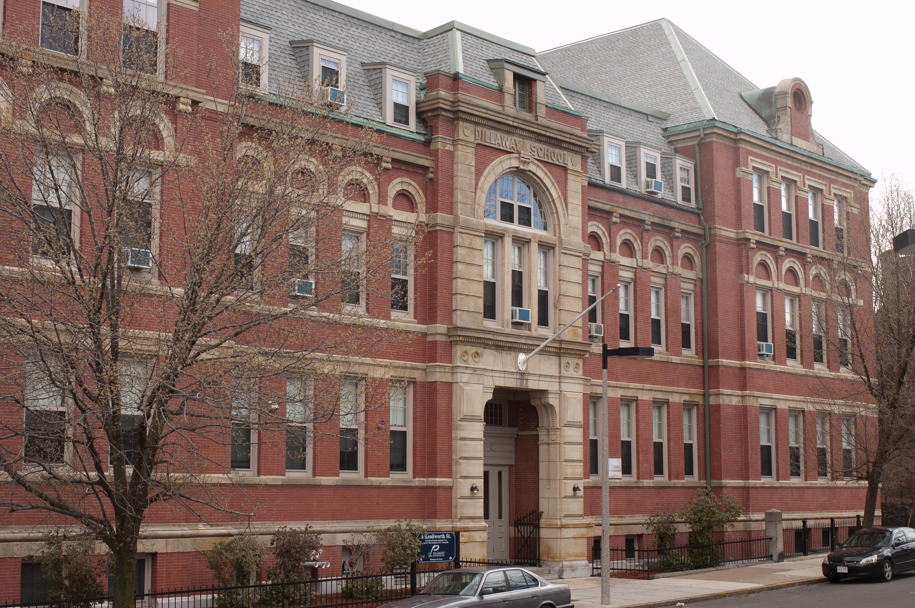 The Dillaway School, located at 16-20 Kenilworth Street, Roxbury, Massachusetts 02119.